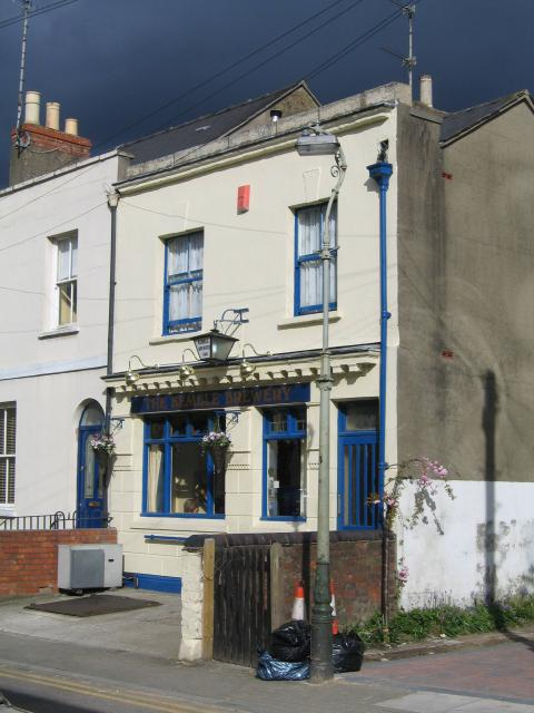 The Kemble Brewery Inn. A quiet pub hidden away in the backstreets of Fairview, on fairview Street.